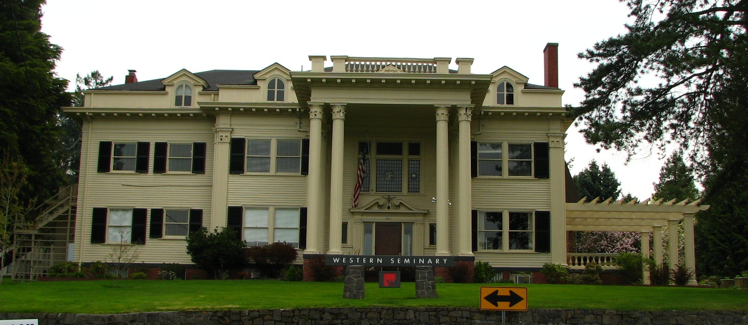 The historic Philip Buehner House (built 1906), located at 5511 Southeast Hawthorne Street in Portland, Oregon, United States, is listed on the US National Register of Historic Places. It is today a central building on a seminary campus.